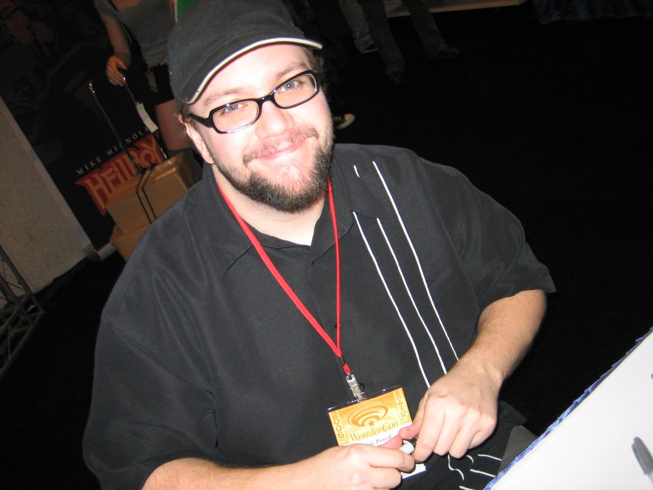 Comic-book writer and artist Eric Powell, author of The Goon, during 2006 Wondercon.